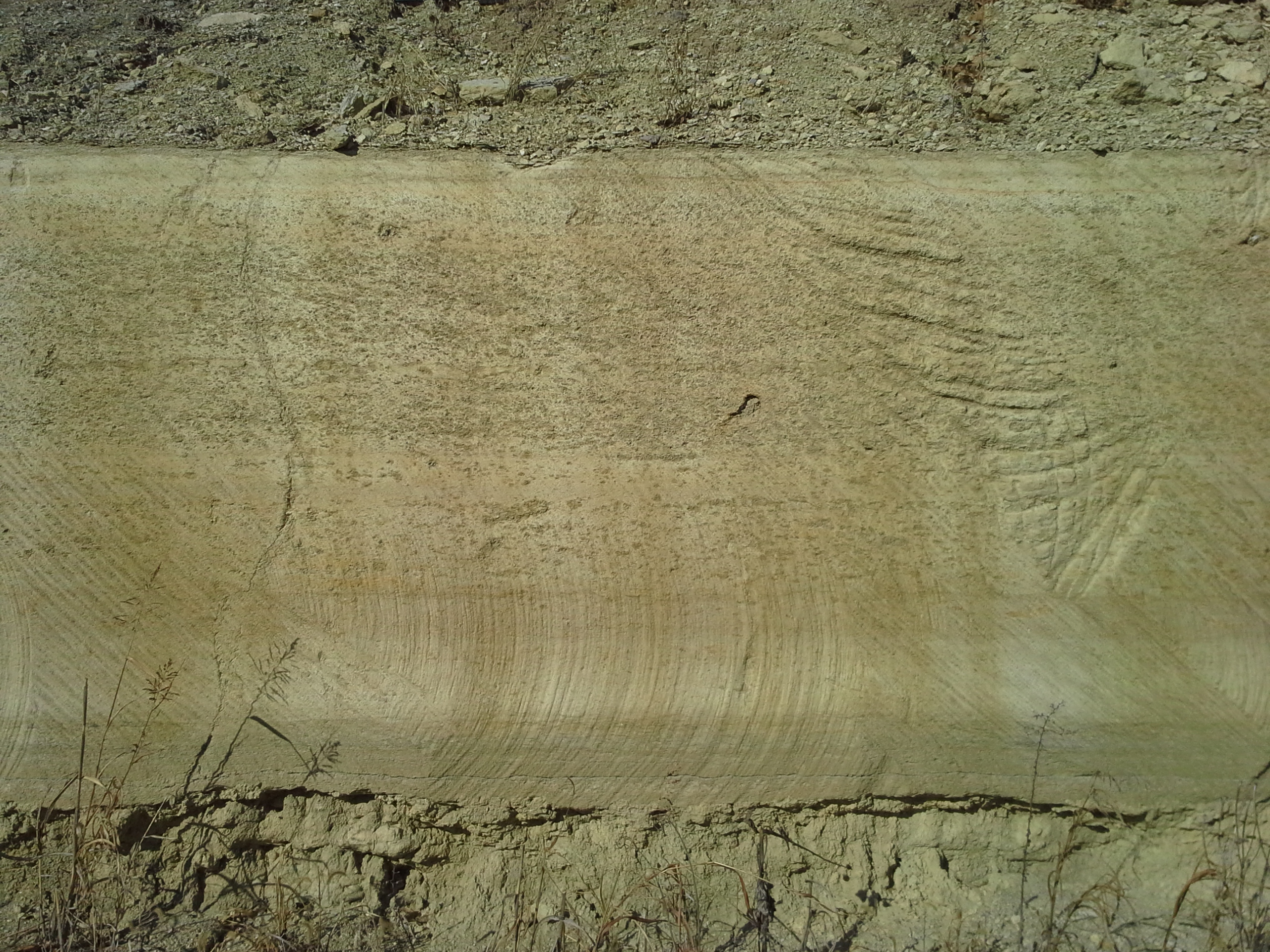 A recent (2006) trench-sawn road cut exposure of the 6 foot thick Cottonwood Limestone made in course of improvements to the K-18 highway in Manhattan, Kansas, 2000 feet west of the interchange with K-113. Just visible is the subtle variations in color, texture, and siliceous nodules between the upper and lower "ledges". The softer Eskridge Shale is seen below and remnants of the Florena Shale and other material is seen above.